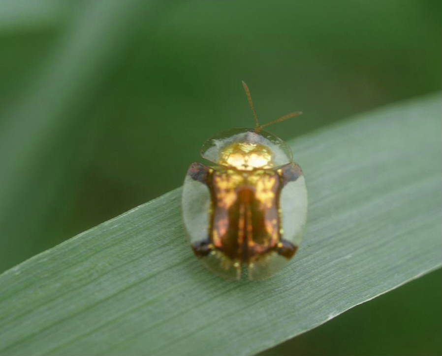 Aspidomorpha indica